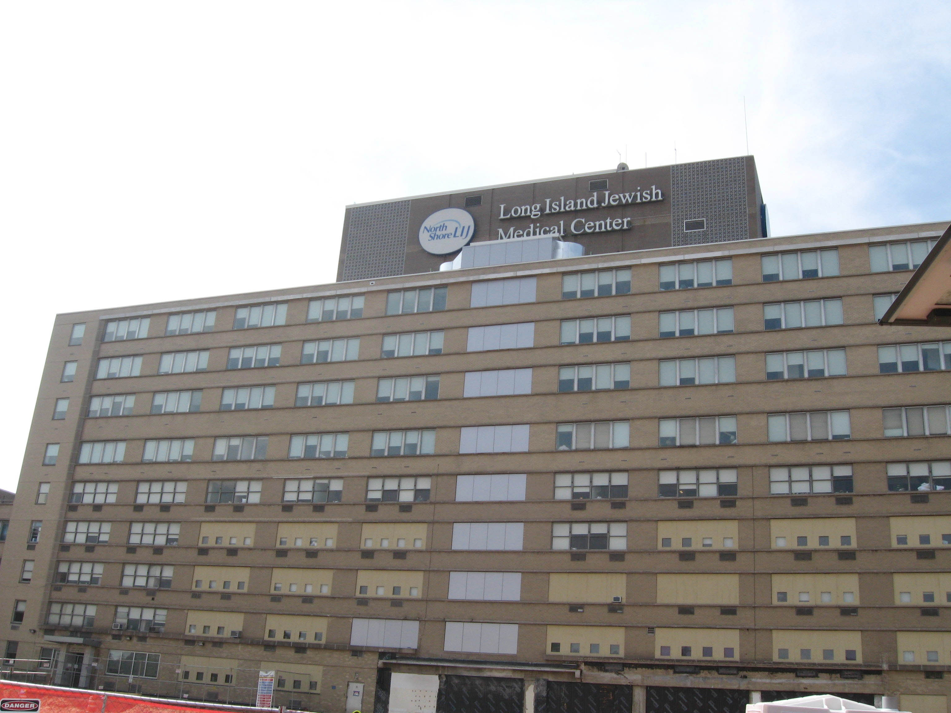 Looking southwest at Long Island Jewish Medical Center on a partly cloudy midday. A few years later a new building occupied the location of the photographer.